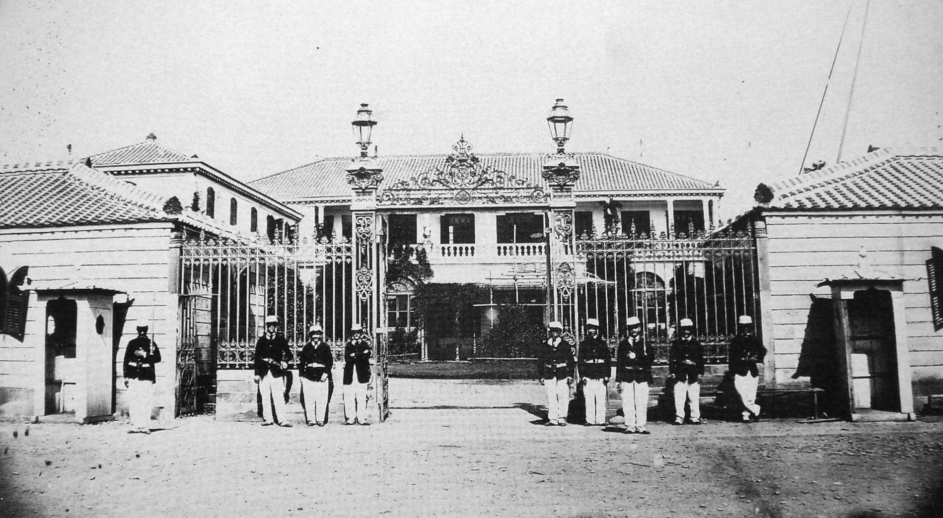 French legation in Yokohama, circa 1870